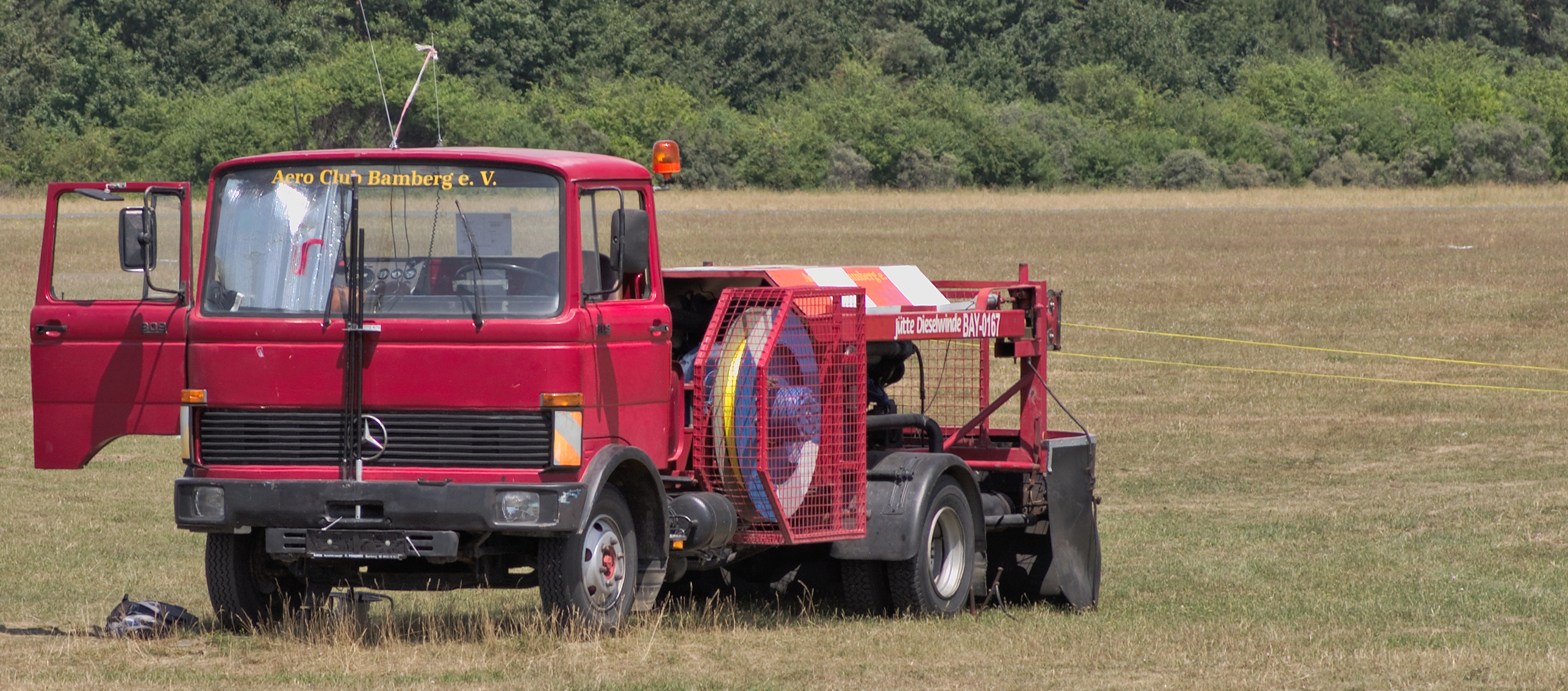 Bamberg-Breitenau airfield, formerly Bamberg US Airfield (ICAO: EDQA): Winch for wire-launching gliders.